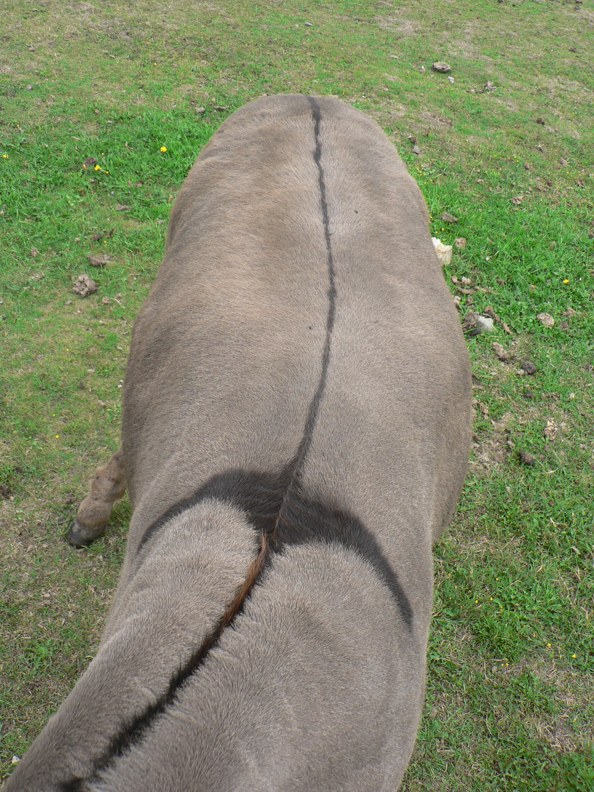 dorsal stripe